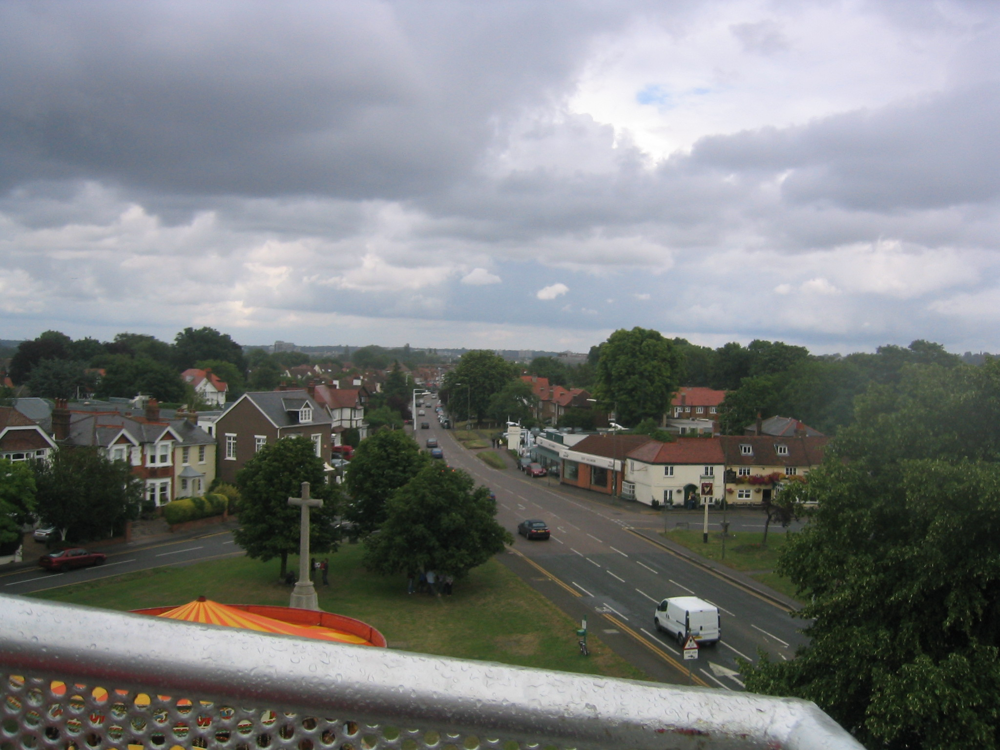 Slight rise in road of 'Giggs Hill' or Giggs Hill Green, a village green in Thames Ditton, showing the distant slopes of Richmond Park on the horizon, including Kingston Hill. Taken by the contributor, Summer 2005. The main road has a bypass. It is part of the London-Surrey Classic event in August in cycling.